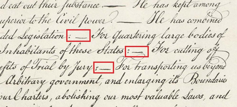 Section of the U.S. Declaration of Independence illustrating the use of the "dog's bollocks" typographical construction